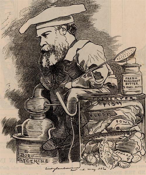 Caricature of Frederick Settle Barff (1823–1886), an English chemist and artist, by Edward Linley Sambourne (1844–1910), published in Punch, Vol. 82, 20 May 1882, p.239. The original caption reads: Member for Boro-Glyceride. Our Preserver! (The bibliographic details are to be found in this handlist by Ged Martin and in in this bibliographic entry for Frederick Settle Barff at the Irish Architectural Archive.)